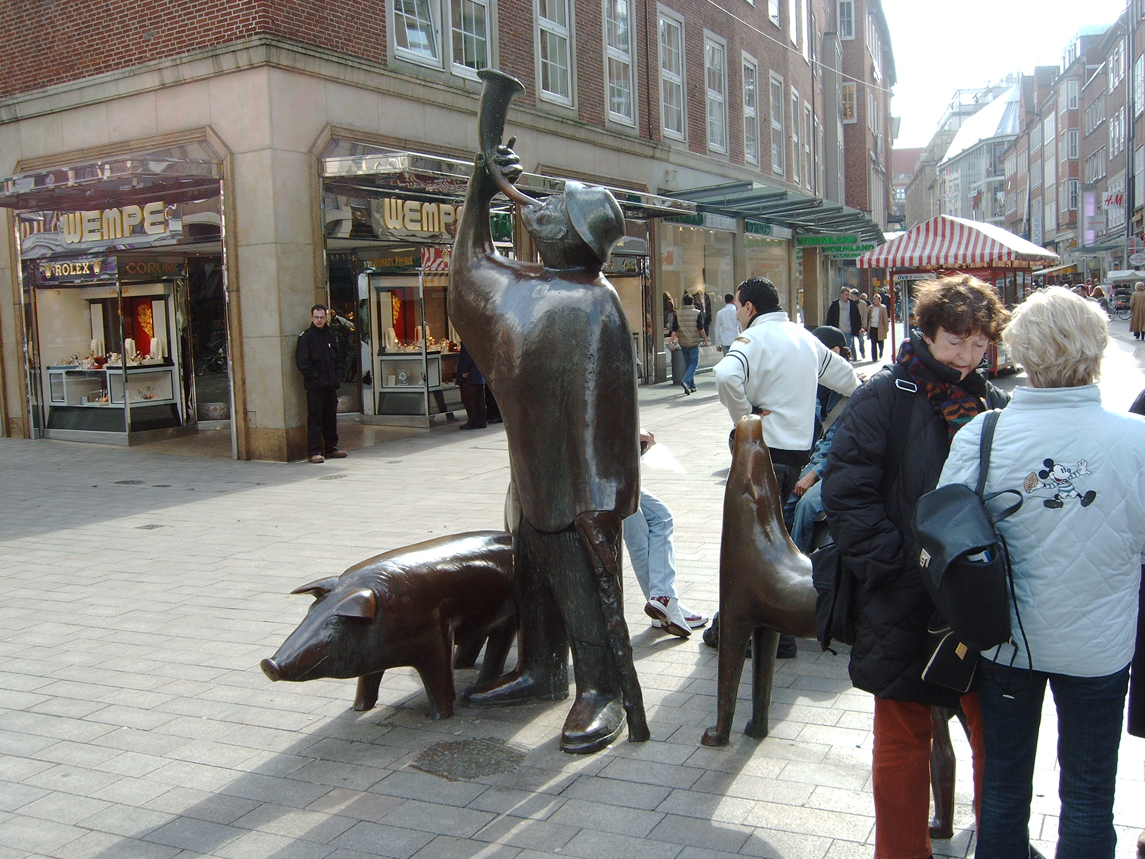 Sögestr. Bremen, Germany Down town